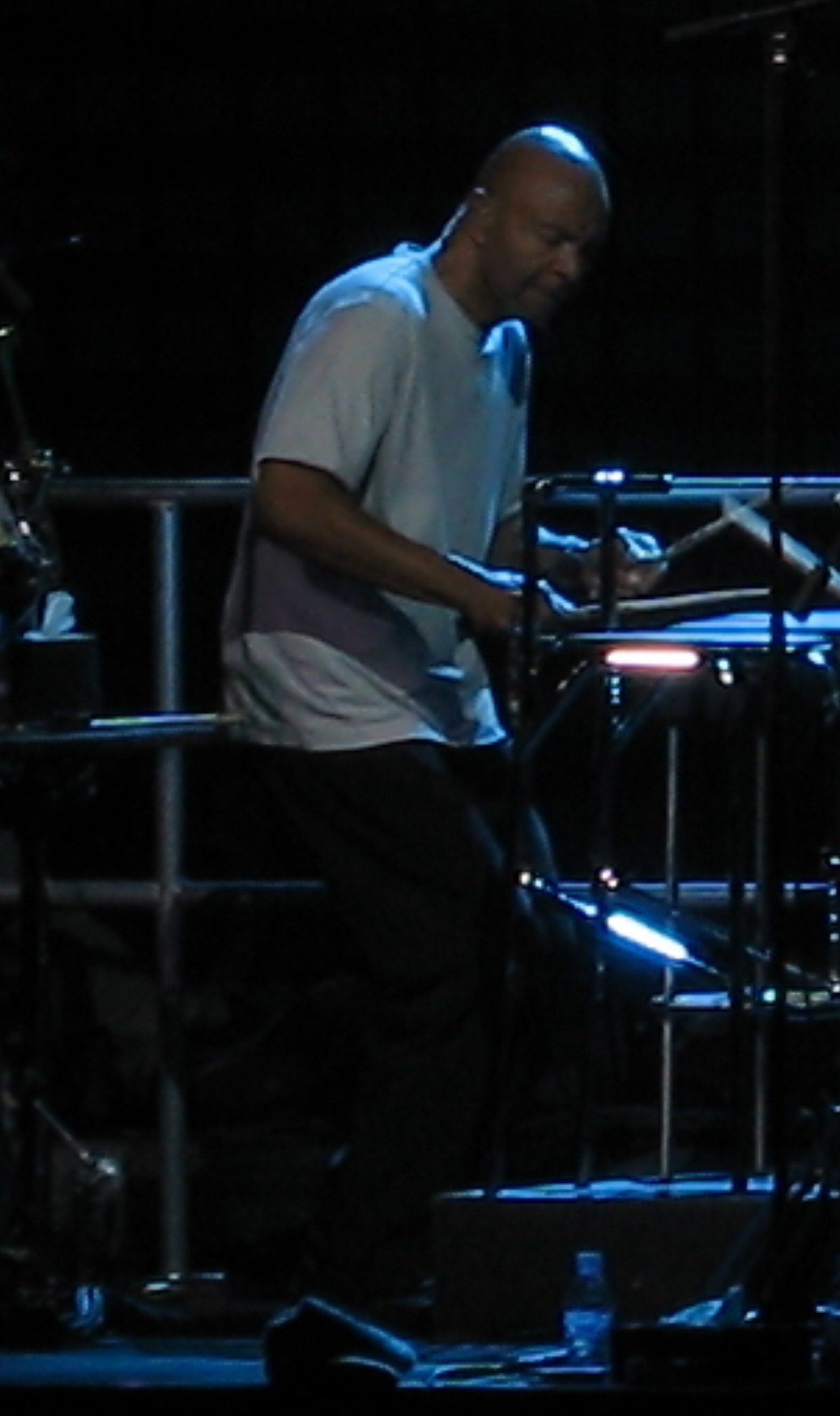 Genesis concert at the Wachovia Center, Philadelphia, Pennsylvania, USA. Chester Thompson performing a drum duet with Phil Collins.